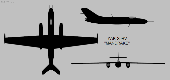 3-view silhouettes of Yakovlev Yak-25RV